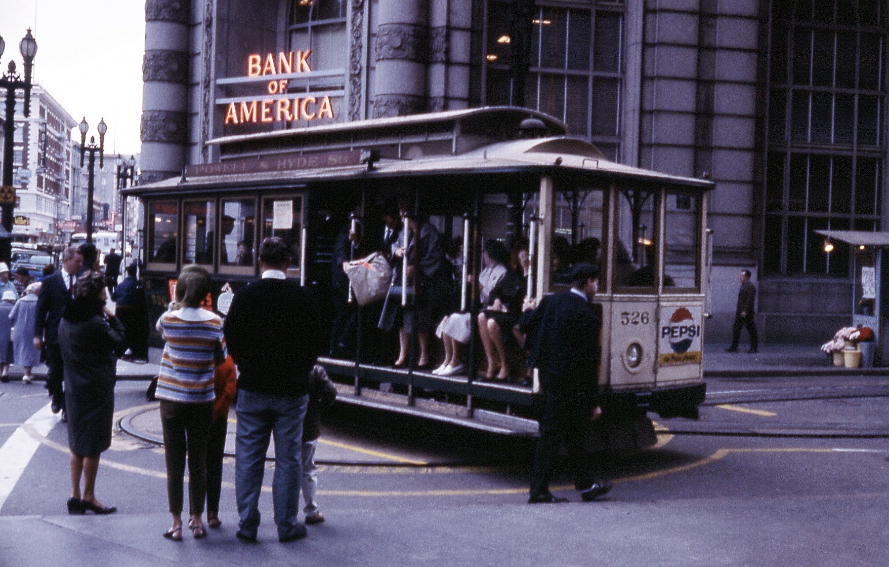 A San Francisco cable car being turned around at the end of that line. Taken with an Exakta VX 35mm camera, using Ektachrome slide film.